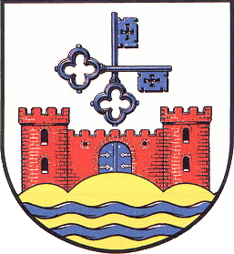 Coat of arms of Burg (Dithmarschen) Blasonierung: In Silber auf goldenem, mit zwei blauen Wellenbalken belegtem Dreiberg eine zweitürmige rote Burg mit geschlossenem blauen Tor, darüber zwei ins Kreuz gestellte blaue Schlüssel.